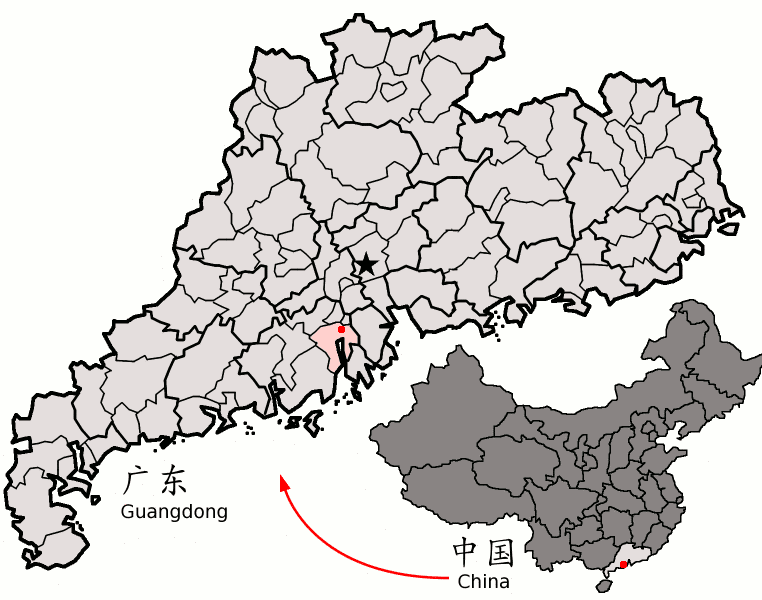 Location of Xinhui city (red) and Xinhui district (pink) within Guangdong province of China